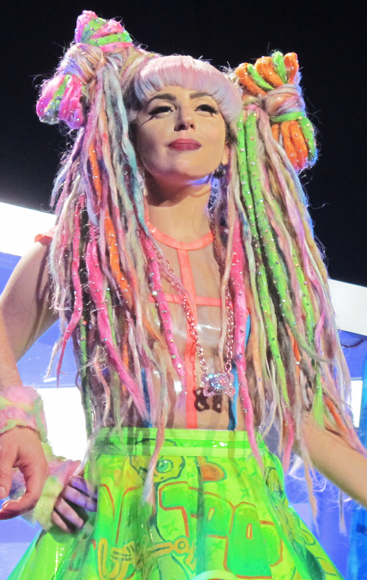 IMG_8313 Lady Gaga performing at ArtRave: The Artpop Ball of San Diego (crop)